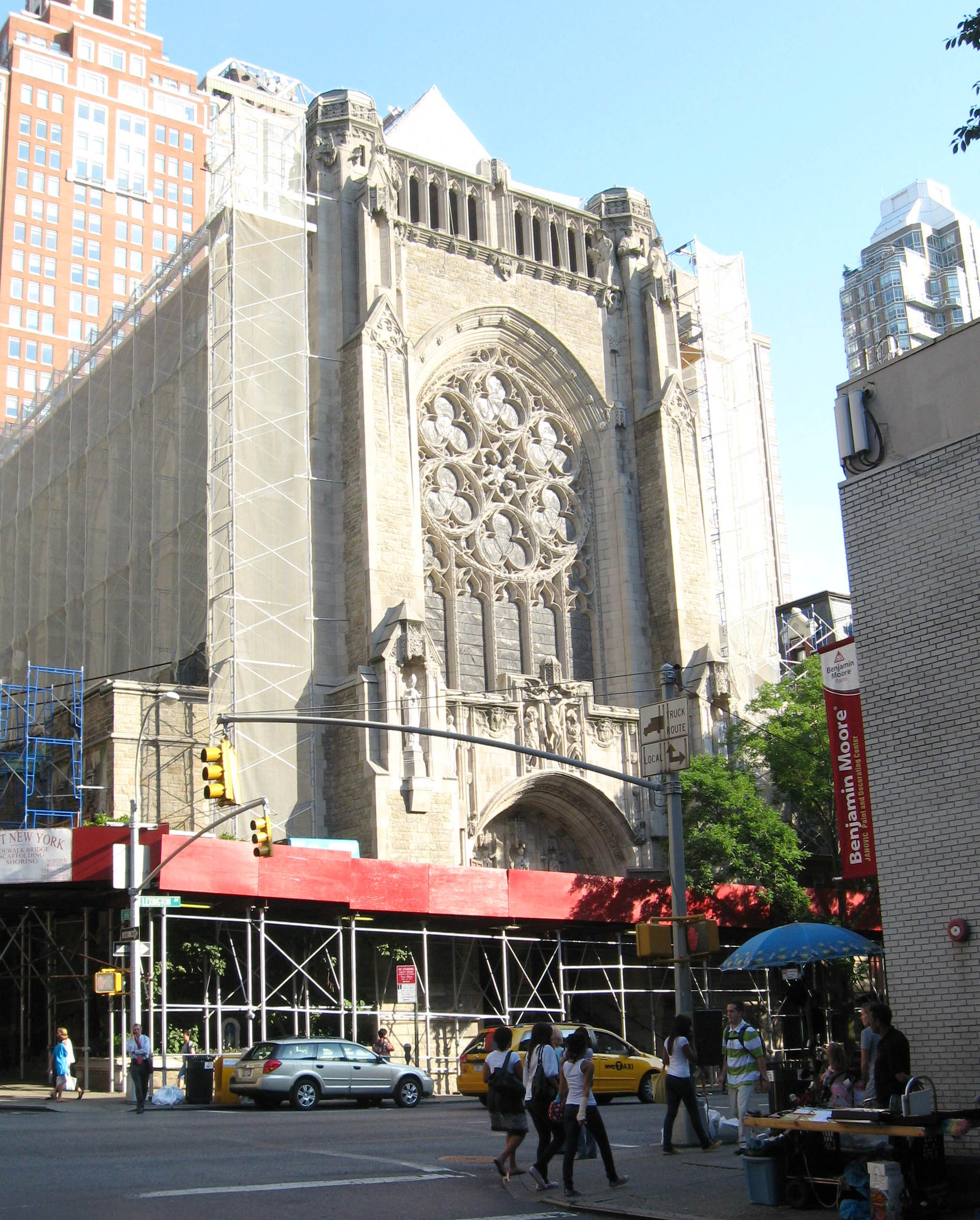 Looking southeast across 66th Street at Church of St. Vincent Ferrer (New York) on a sunny afternoon